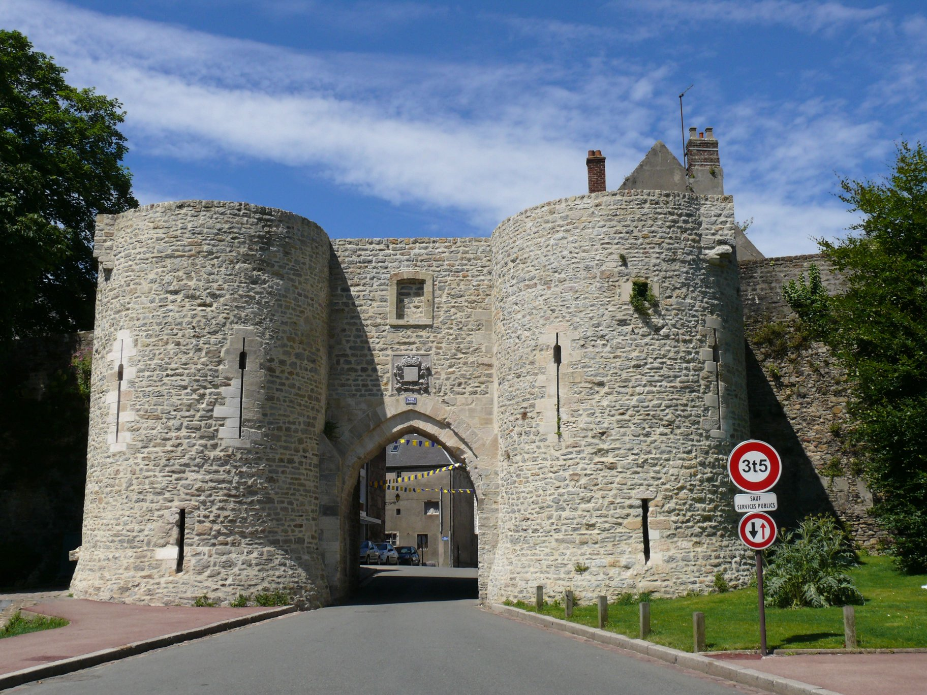 The Gayolle door of Boulogne-sur-Mer (Pas-de-Calais, France).